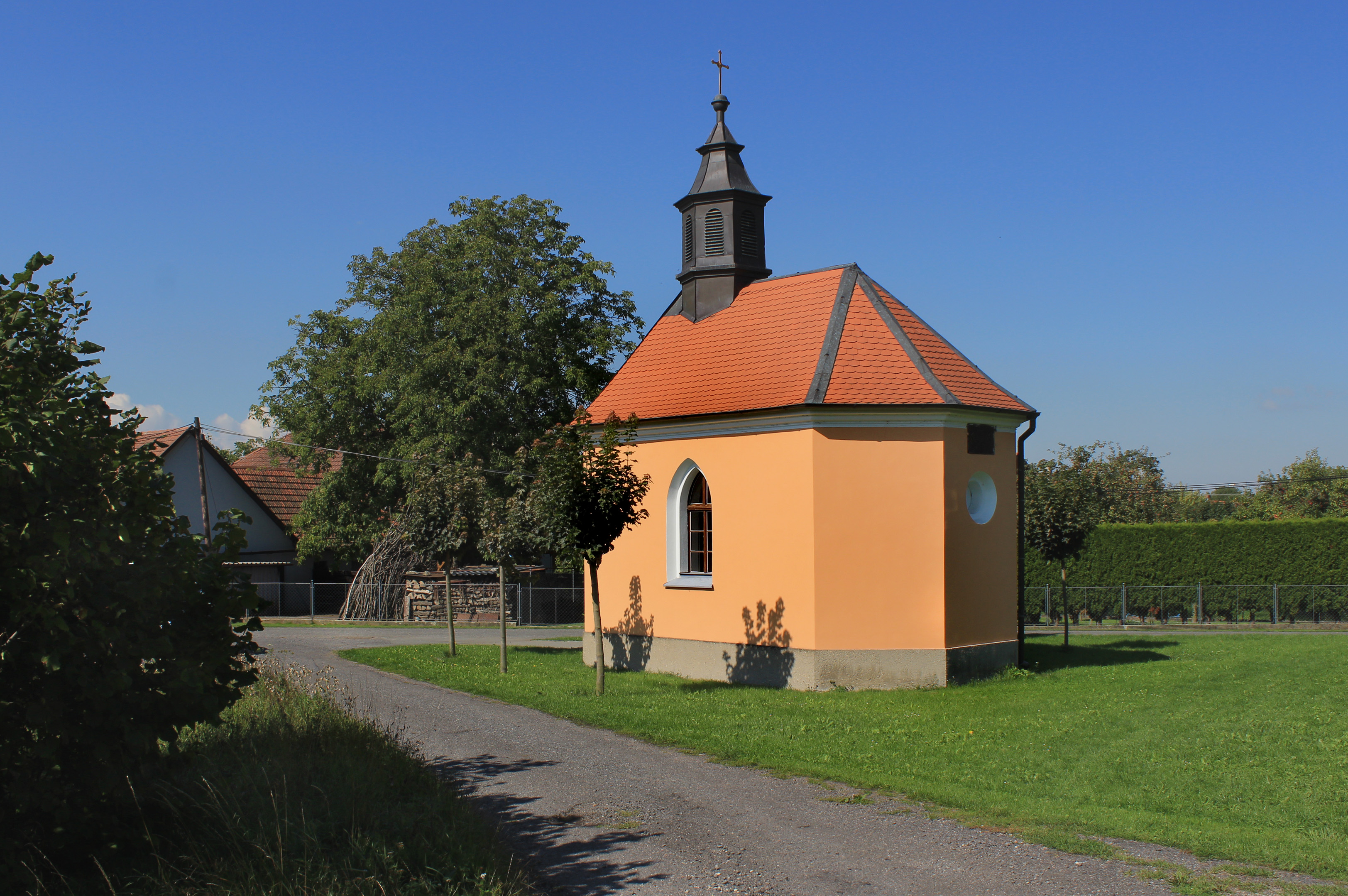 Small chapel in Nová Sídla, Czech Republic.